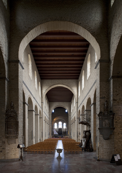 Collégiale Ste-Gertrude ; Nivelles; Brabant-Wallon, Belgium; ref: PM_007865_B_Nivelles; ; ; Photographer: Paul M.R. Maeyaert; © Paul M.R. Maeyaert; ; Cultural heritage; Europe/Belgium/Nivelles